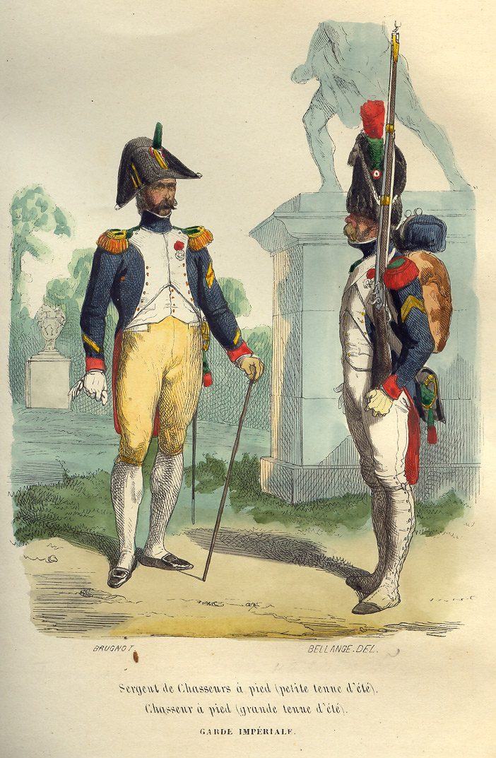 French chasseurs of Napoleon Guard. From book ofP.-M. Laurent de L`Ardeche «Histoire de Napoleon», 1843